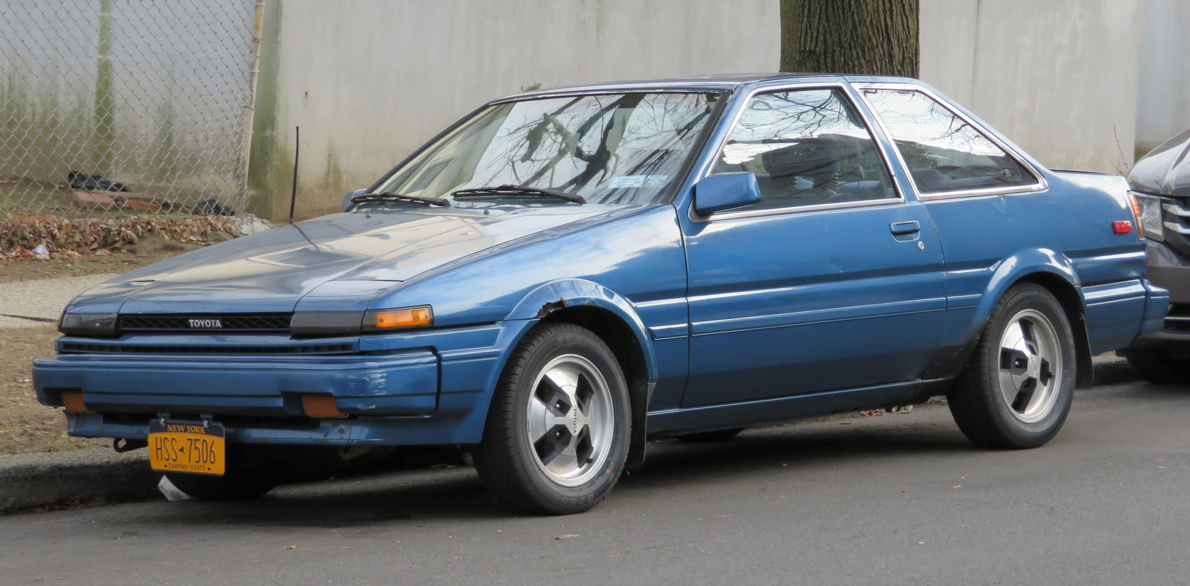 Spotted in Flushing, New York.